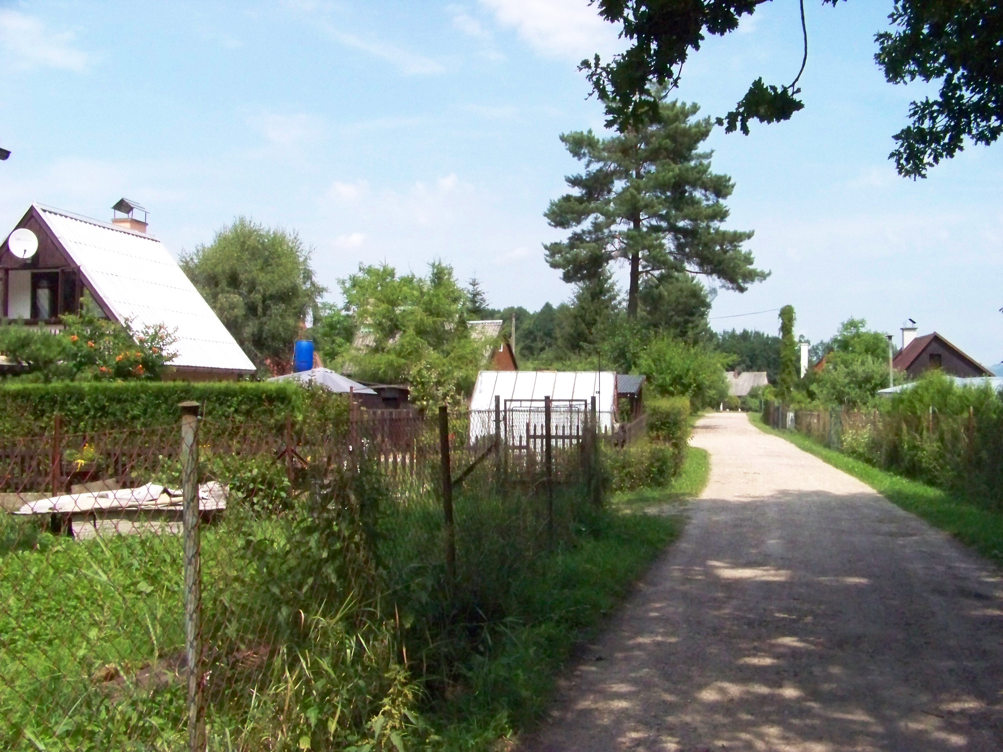 Újezd u Chocně-Chloumek, Ústí nad Orlicí District, Pardubice Region, the Czech Republic. Darebnice. - OpenStreetMap(Info)